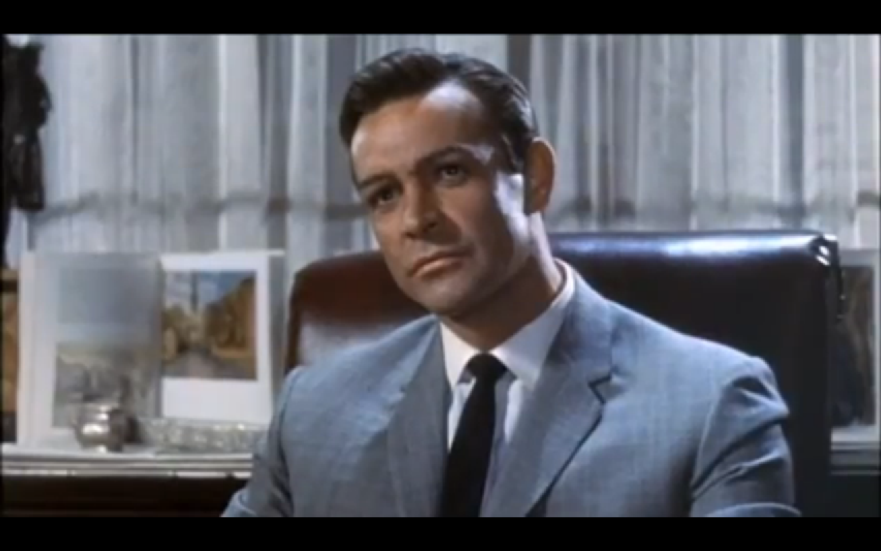 Sean Connery in Hitchcock's "Marnie" trailer.